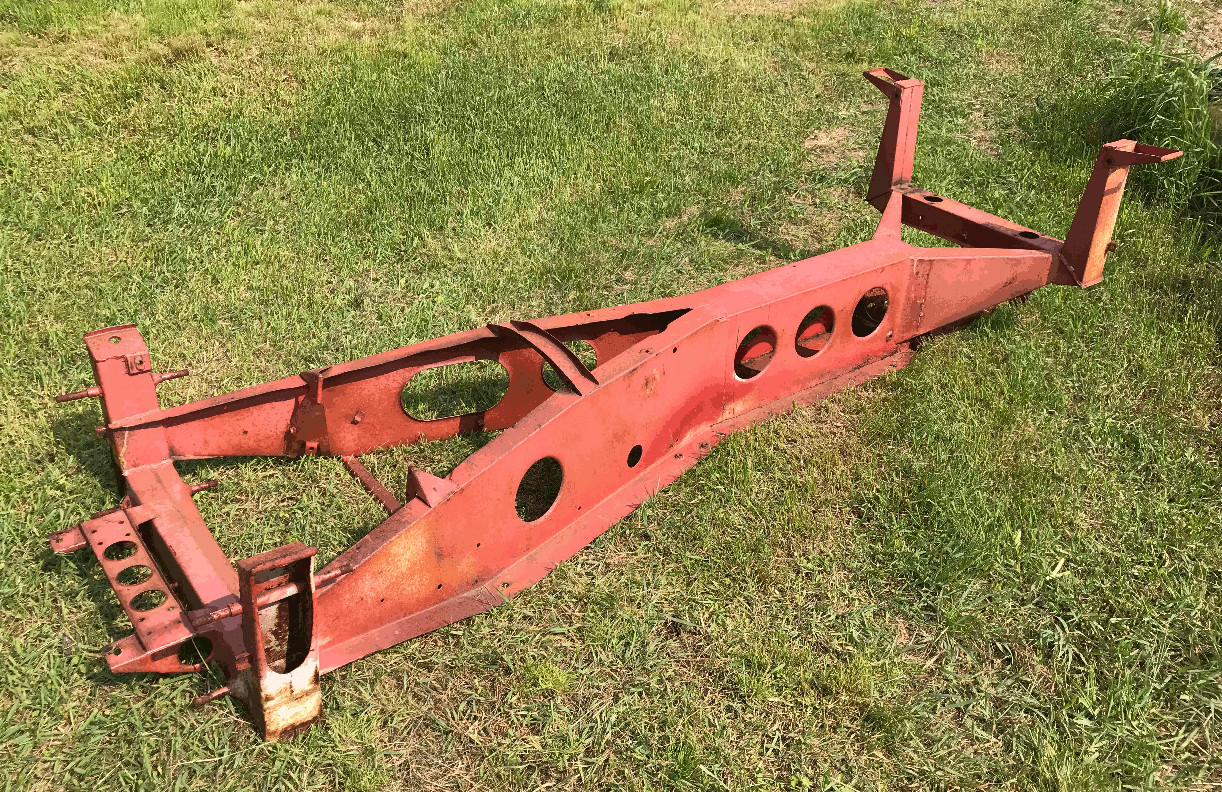 A bare (and retired) 1960s/1970s Lotus Elan chassis